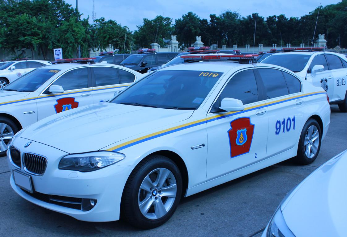 BMW 5 series police car in Thailand (Bangkok Metropolitan Police). (The police unit's identification markings have been censored out for security purposes.)